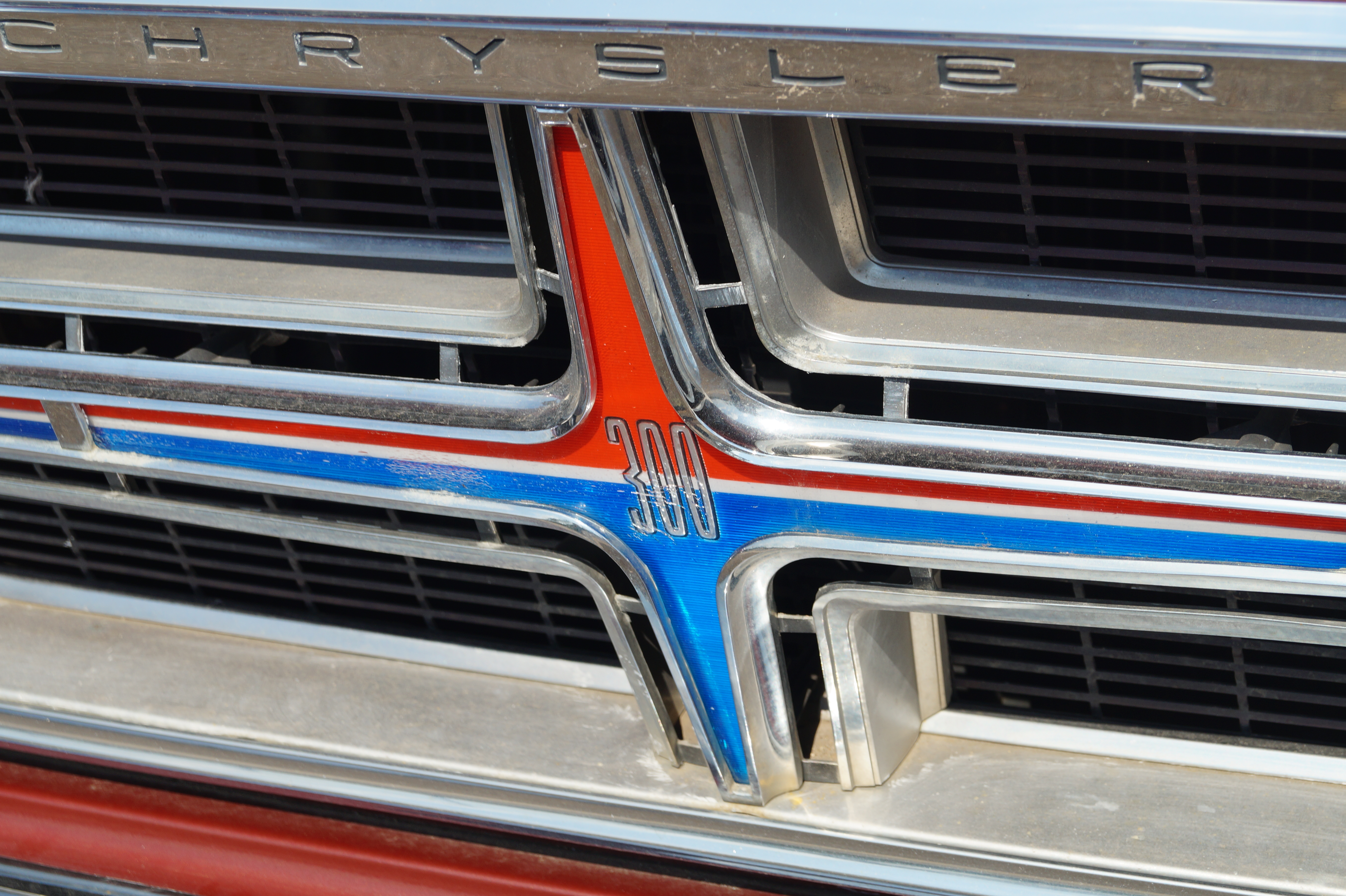 I could not see many cars on my way up to the Boat Show on Gull Lake, since it was very early, dark and foggy. Around the Boat Show and on the trip back I did catch a few. Click here for more car pictures at my Flickr site.